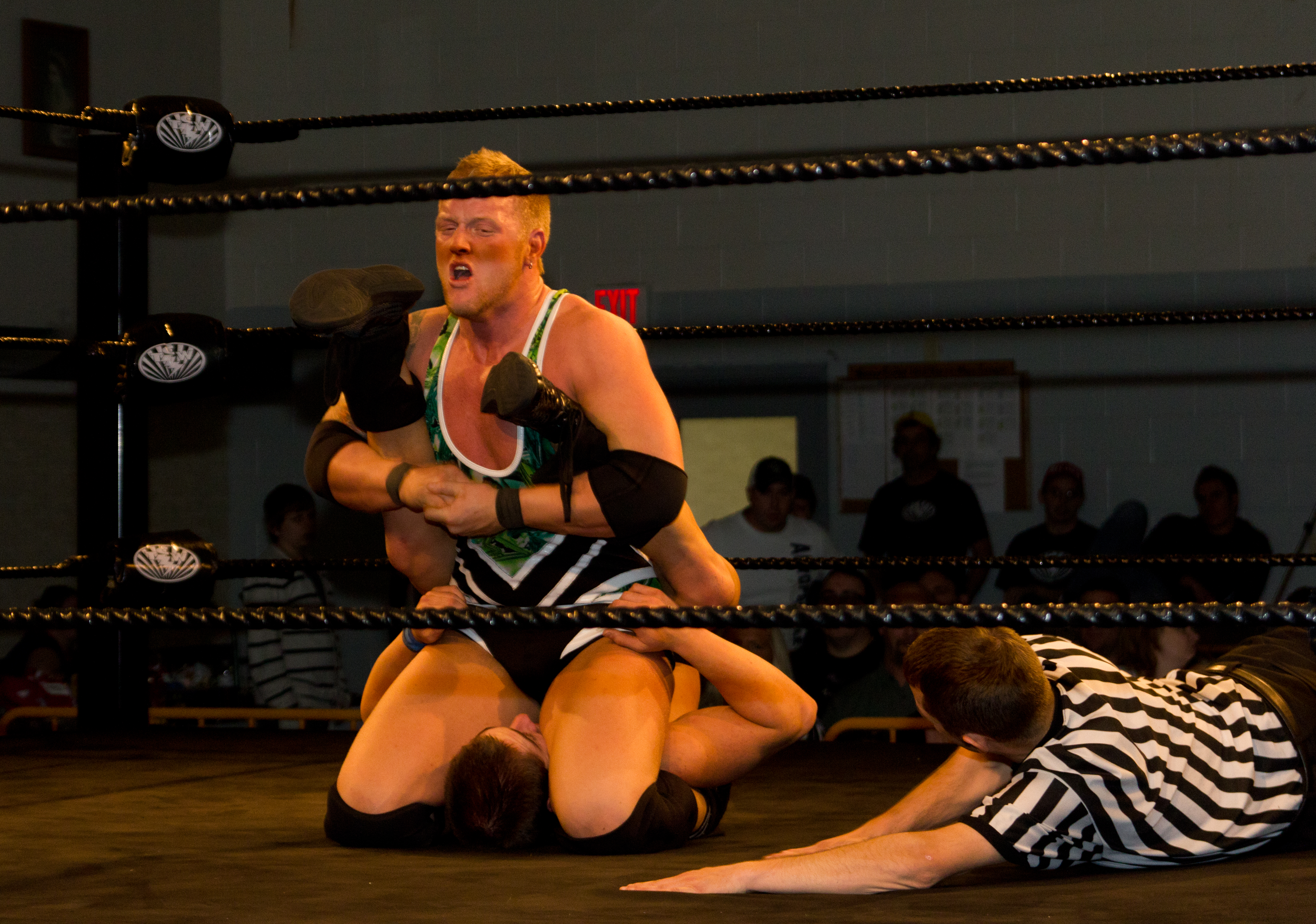 Josh Alexander holds Johnny Wave in the "rana" pinning combination, TCW, 20th November 2011